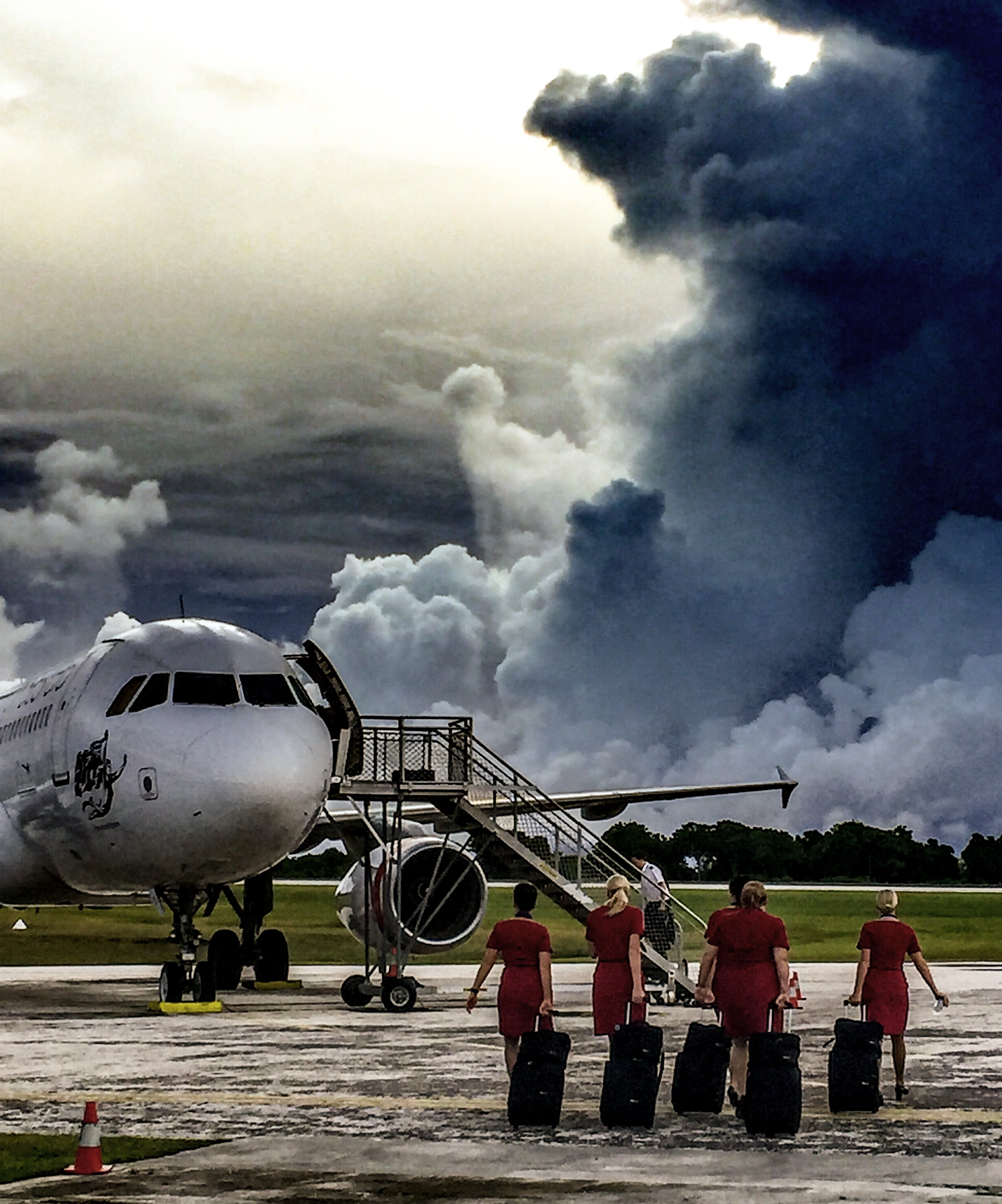 Virgin Australia crews boarding an Airbus A320 at Christmas Island Airport to depart before the impending storm